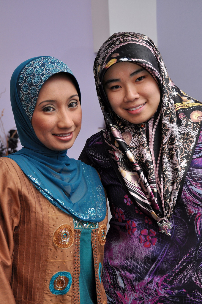 Two Muslim women in colourful tudungs (the Malay language term for the Islamic headscarf) at an engagement party in Brunei.